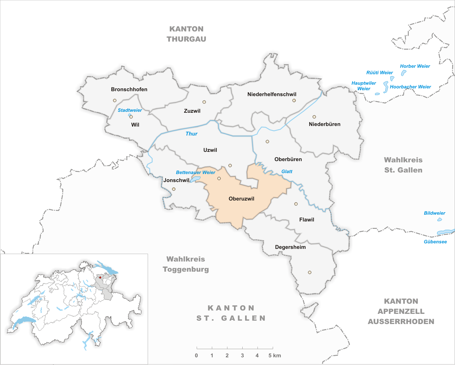 Municipality Oberuzwil